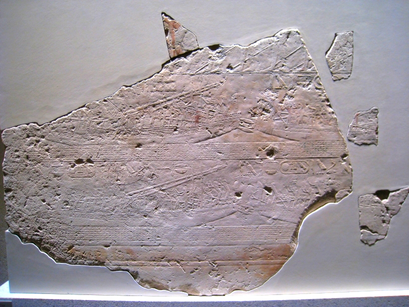 Reliefs of the funerary temple of Sahure. Return of a naval expedition from Syria - 5th dynasty of Egypt - Egyptian museum of Berlin